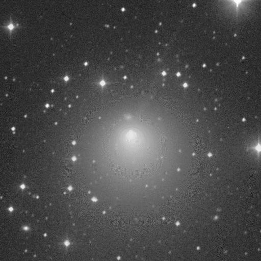 This is an image of short-period comet Encke obtained by Jim Scotti on 1994 January 5 while using the 0.91-meter Spacewatch Telescope on Kitt Peak. The image is 9.18 arcminutes square with north on the right and east at top. The integration time is 150 seconds.